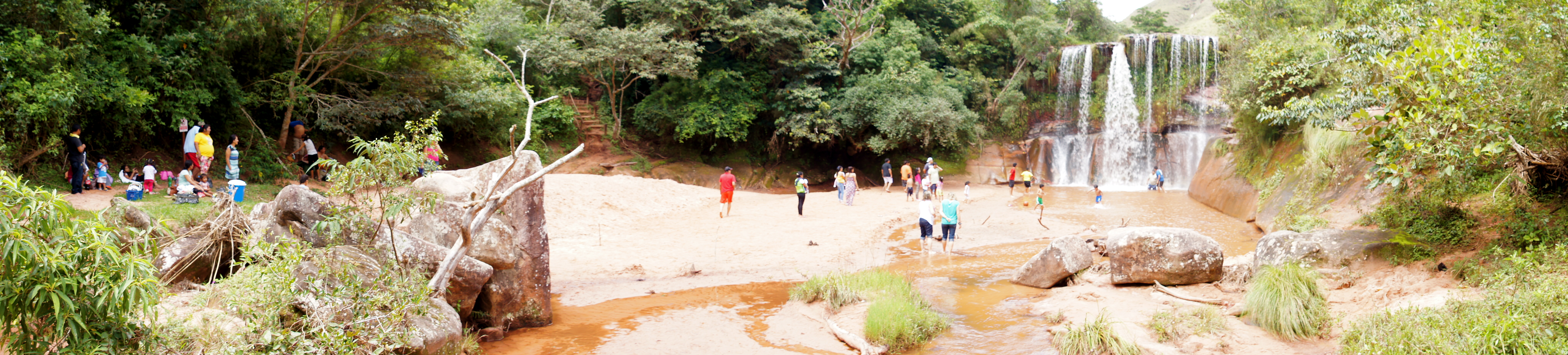 Sunday afternoon at 'the beach' allows for sports and picnics.